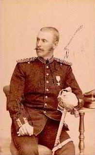 Portrait of a Swedish officer who served in the Congolese forces. Juhln-Dannfelt, Mats Julius F. 1859, d. 1897 Löjtnant Capitaine commandant i Kongostatens armé. I Kongostatens tjänst 1883-97. Commissaire du district des Cataractes et Matadi i Kongo. Svea artilleriregemente. Södra skånska infanteriregementet.